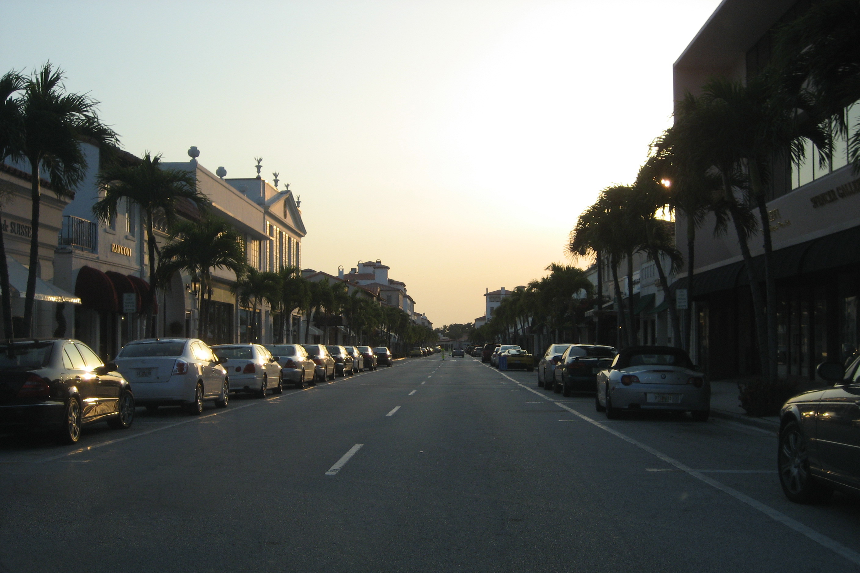 A photo of Worth Avenue, a street in Palm Beach, Florida.